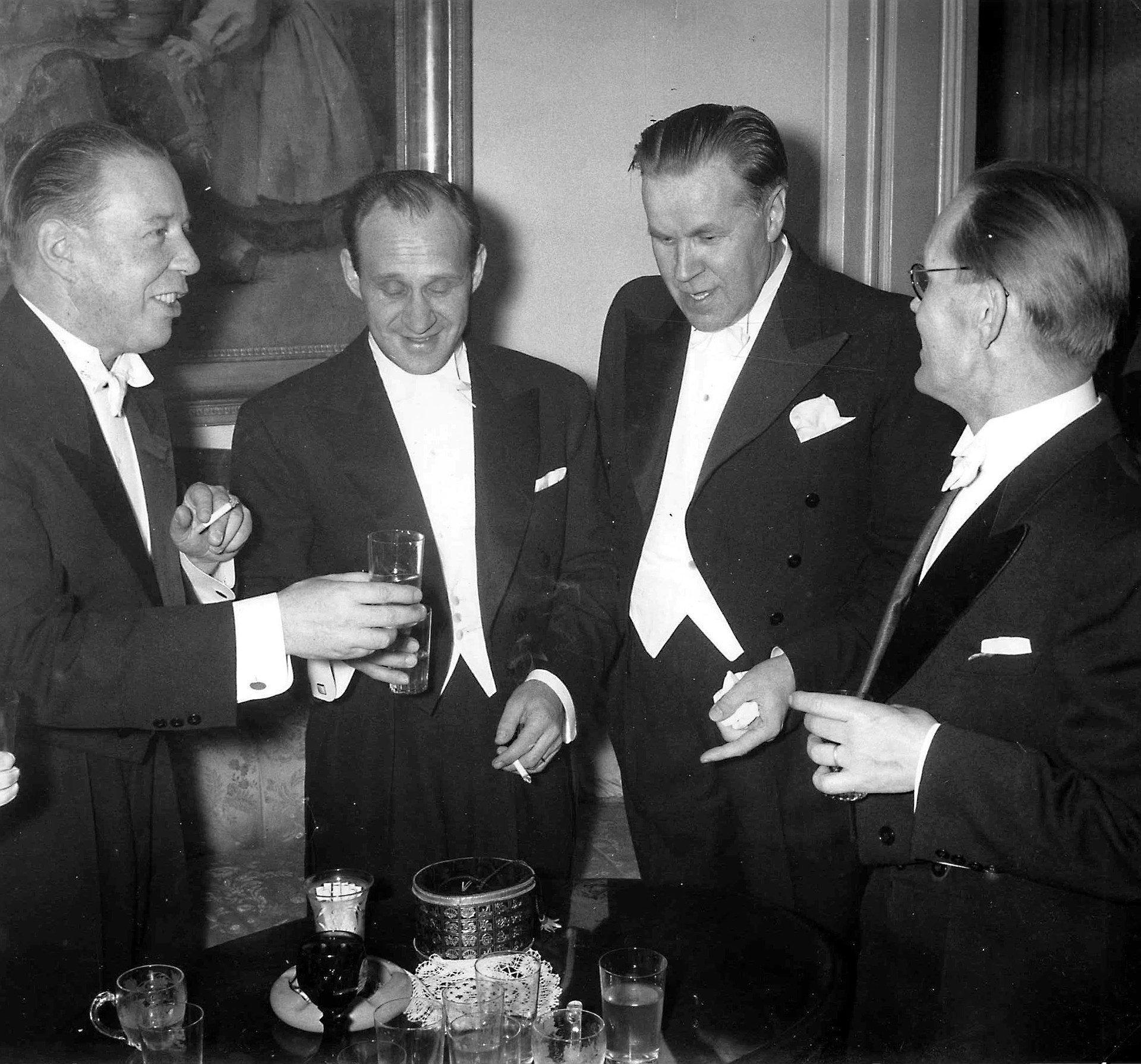 Photograph of Mika Waltari, Väinö Linna, Edvin Laine and Lauri Viljanen at Finland’s Independence Day reception, Presidential Palace, Helsinki.